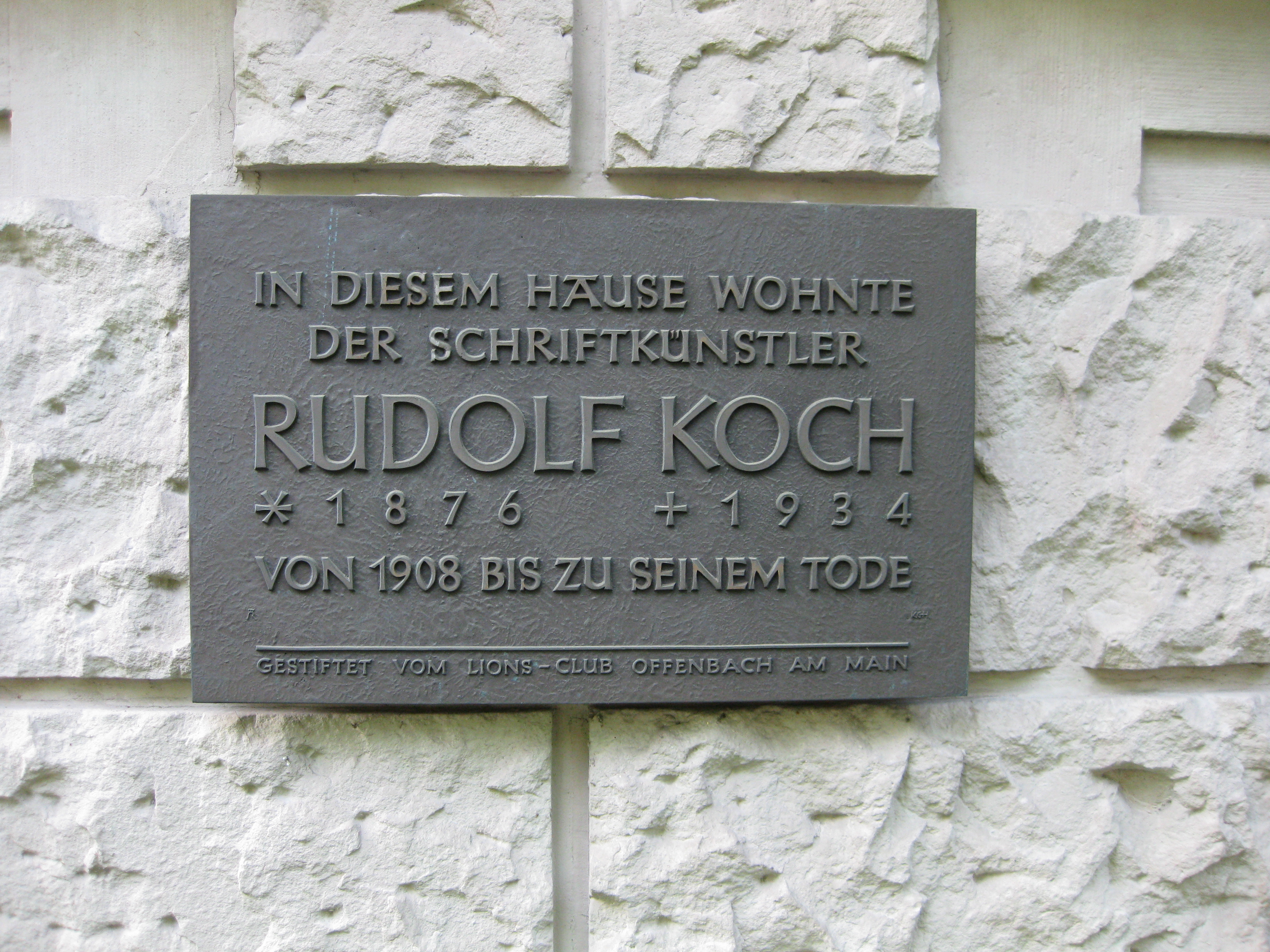 Sign designed by Karlgeorg Hoefer for Rudolf Koch at the house where he lived from 1908-1934. Adress: Buchrainweg 29, Offenbach am Main